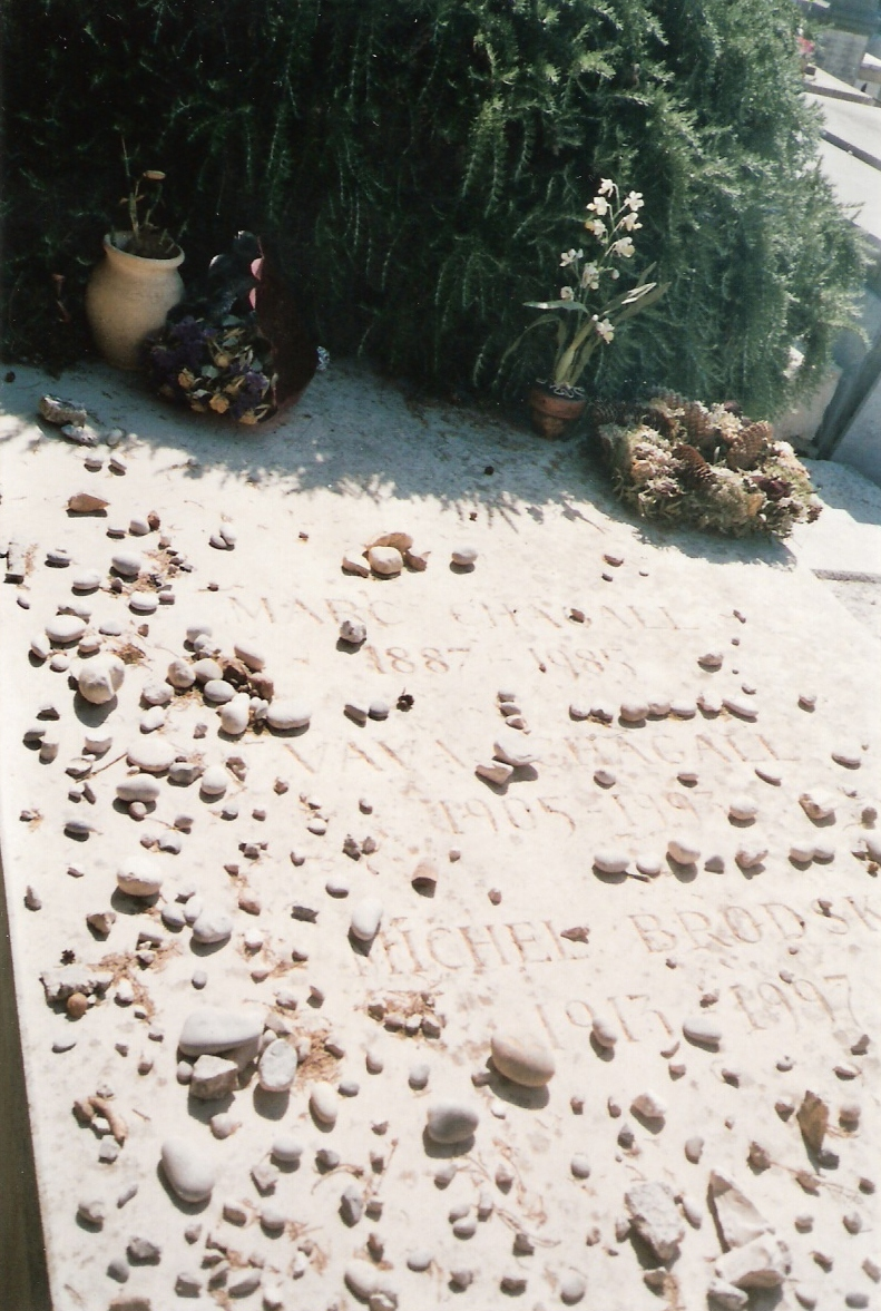 Gravestone of Marc Chagall and his wife in Saint Paul de Vence, france